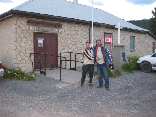 The Legion of Cadomin. Branch 124. Only open in the summer months now two days per week. This was once open year round and many of the Hamlet's residents would watch projected films here and stage plays, etc. July 2011